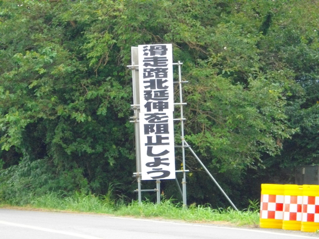 Anti-airport slogan of Sanrizuka-Shibayama United Opposition League against Construction of the Narita Airport